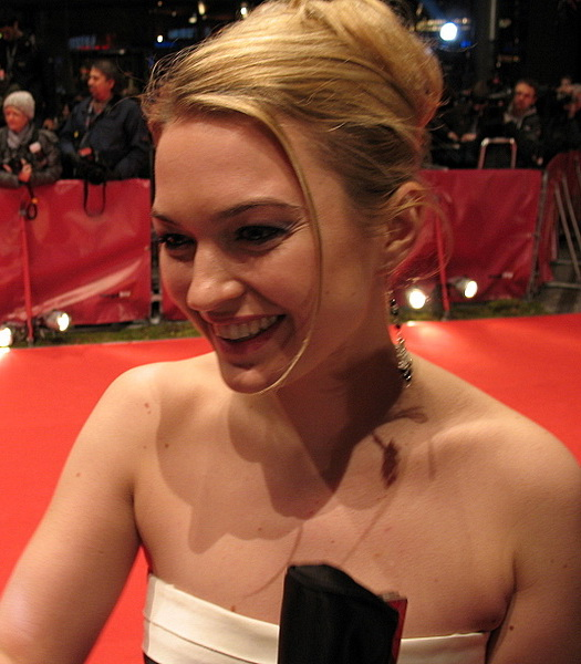 Sophia Myles at the 2007 Berlin film festival